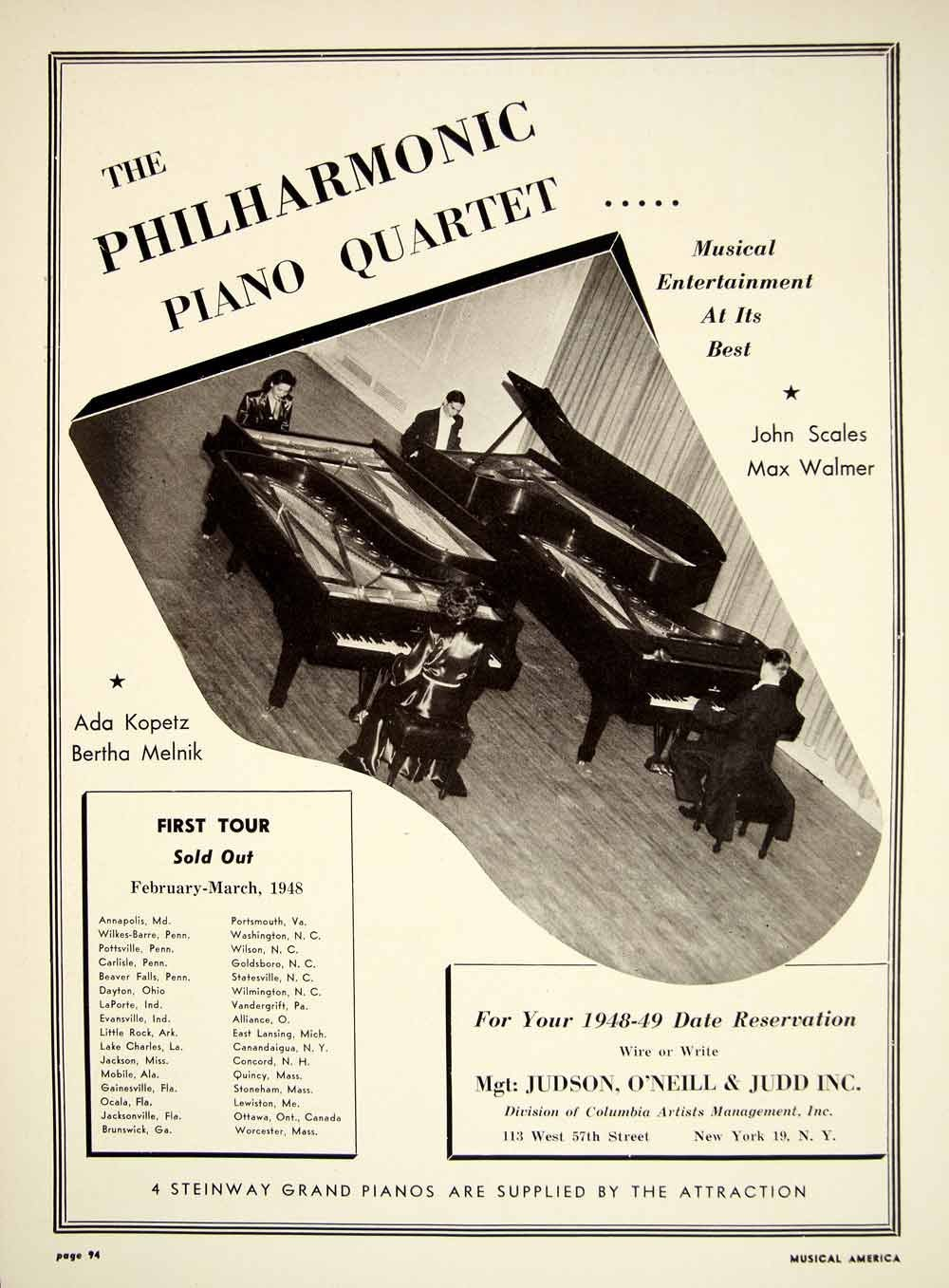 Advertisement for the 1948/49 concert tour of the Philharmonic Piano Quartet